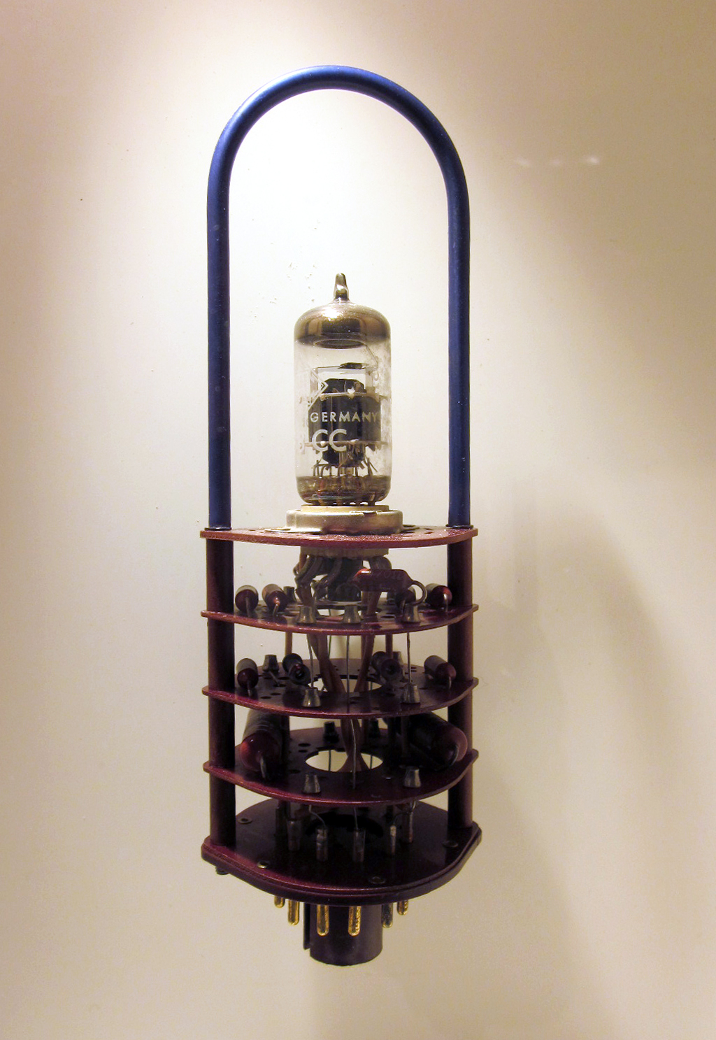 Vacuum tubes of the Z22 in the End of the 1950s